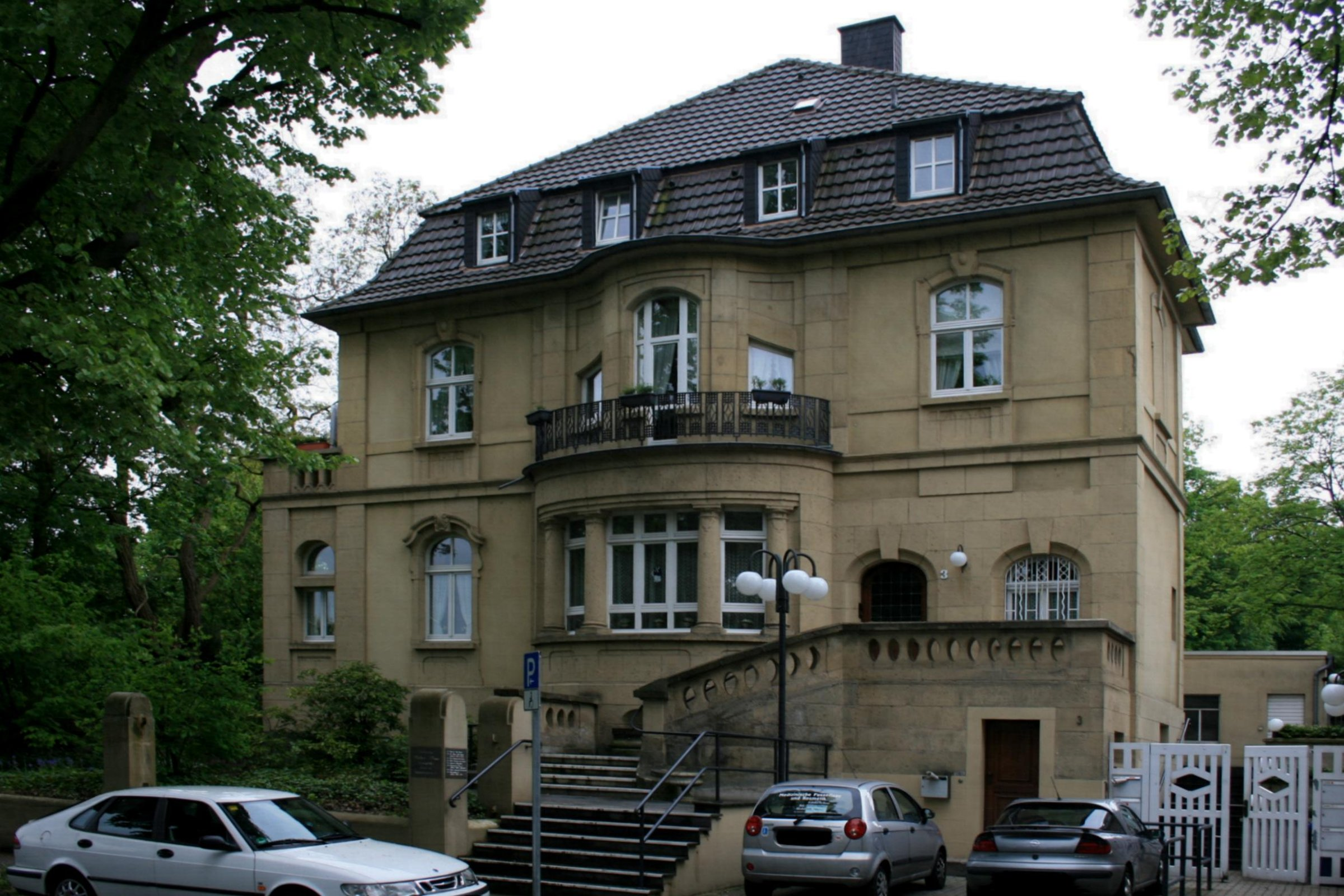 Cultural heritage monument No. M 012 in Mönchengladbach